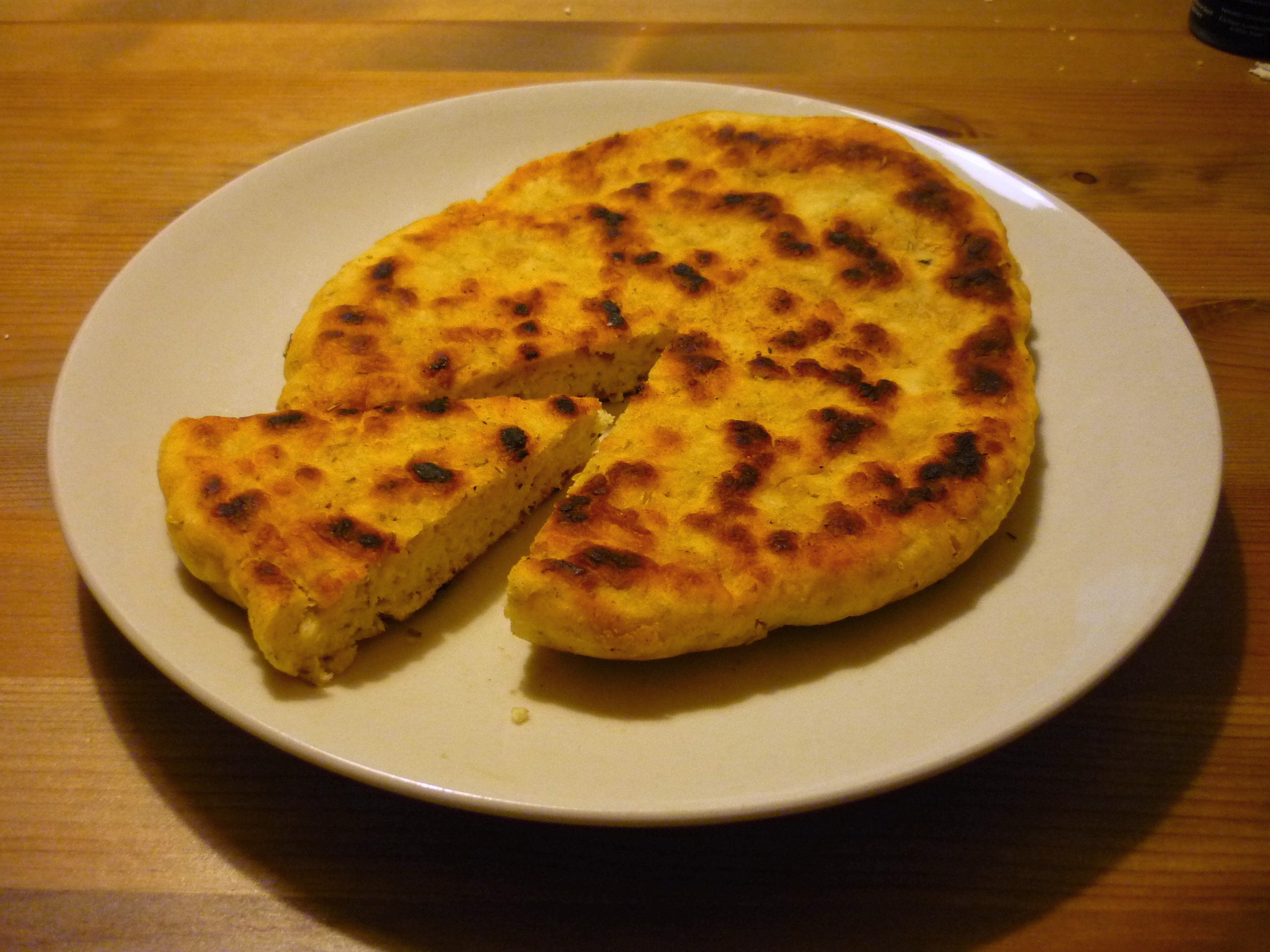 Freshly baked bannock bread